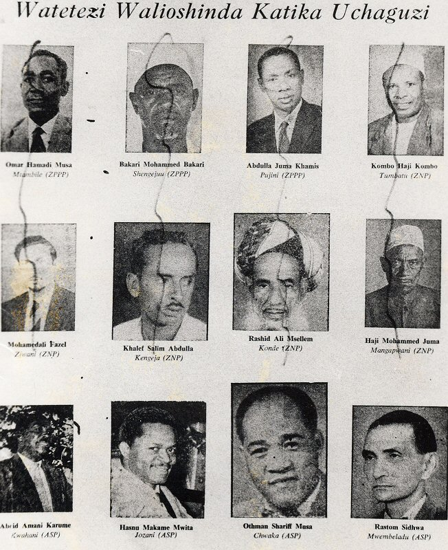 Winners of the Elections for Members of Parliament